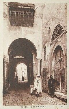 Rue du Riche, Medina of Tunis